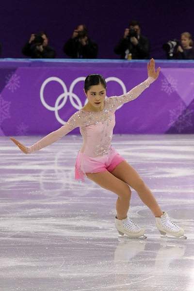 MIYAHARA Satoko JPN – 4th Place